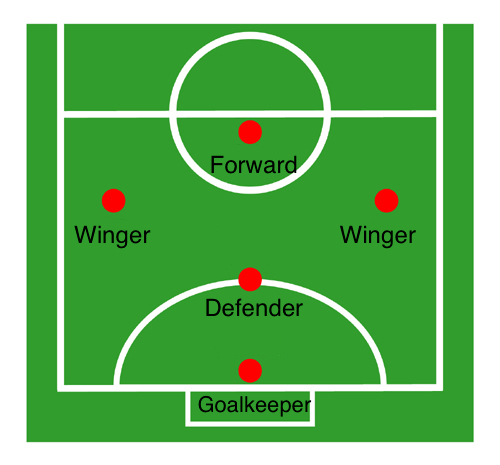 Futsal 4 positions.